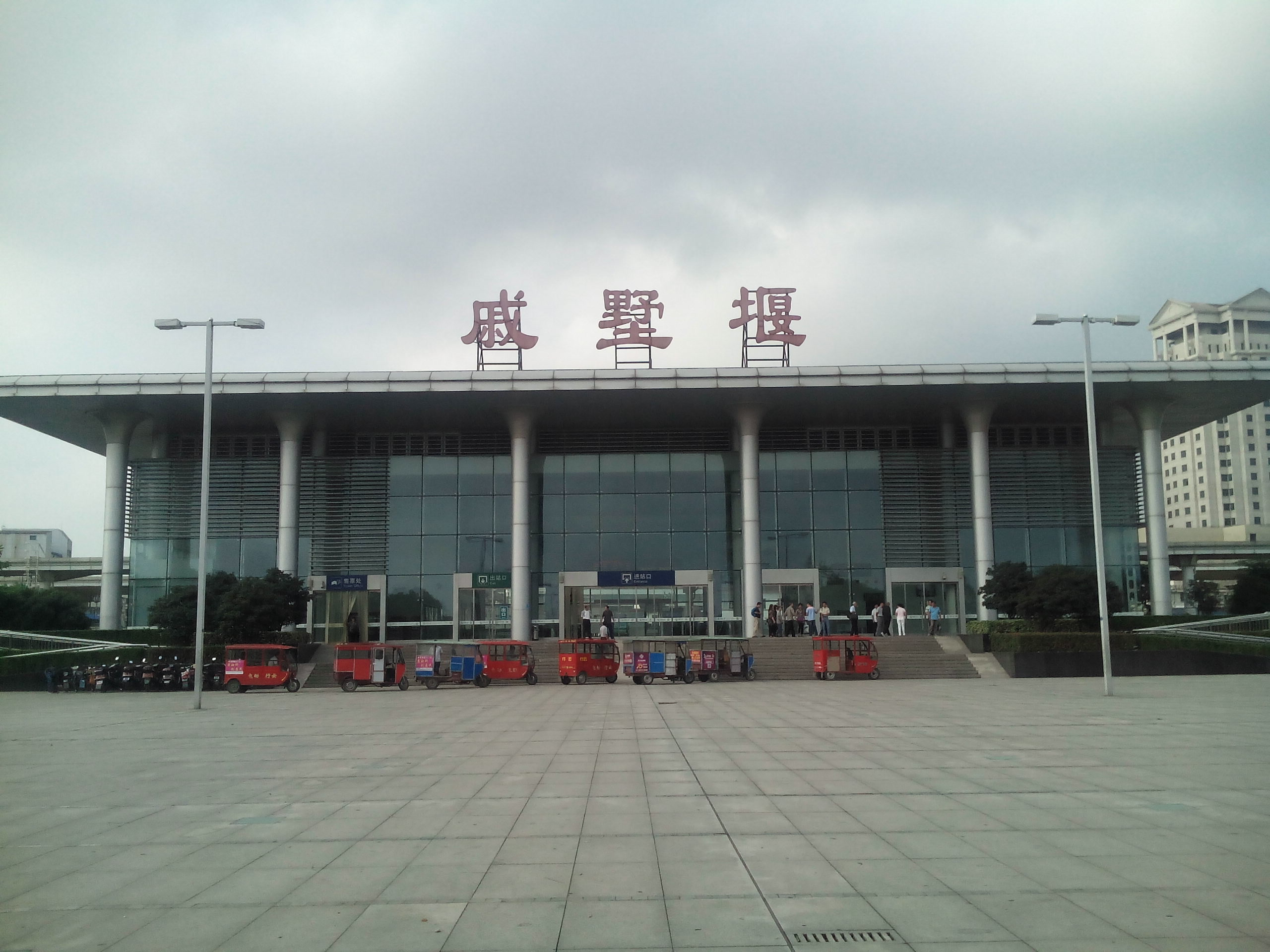 201409 Qishuyan Railway Station